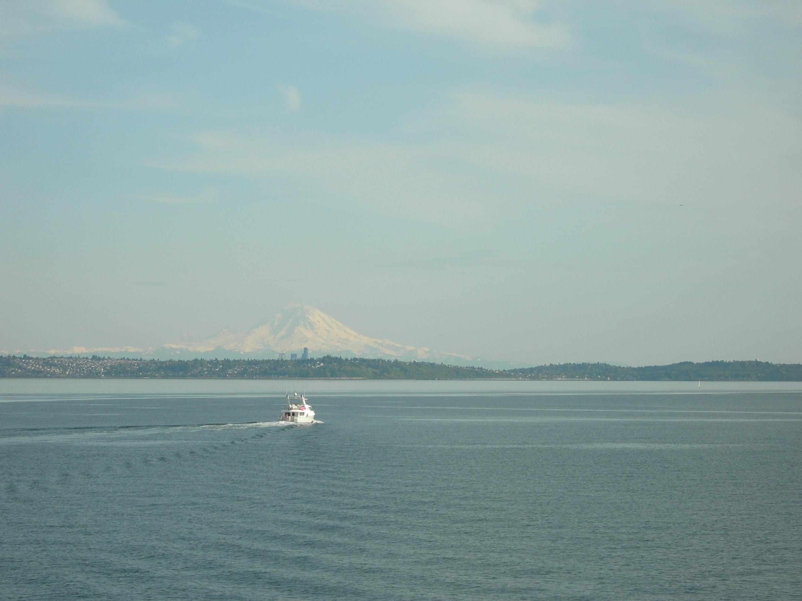 paul symington